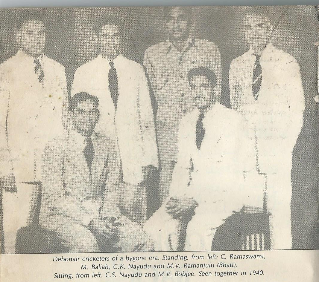 Debonair cricketers of bygone era. Standing from left C. Ramaswami, M. Baliah, C.K. Nayudu and M.V. Ramanjulu (Bhatt). Sitting from left: C.S. Nayudu and M.V. Bobjee.